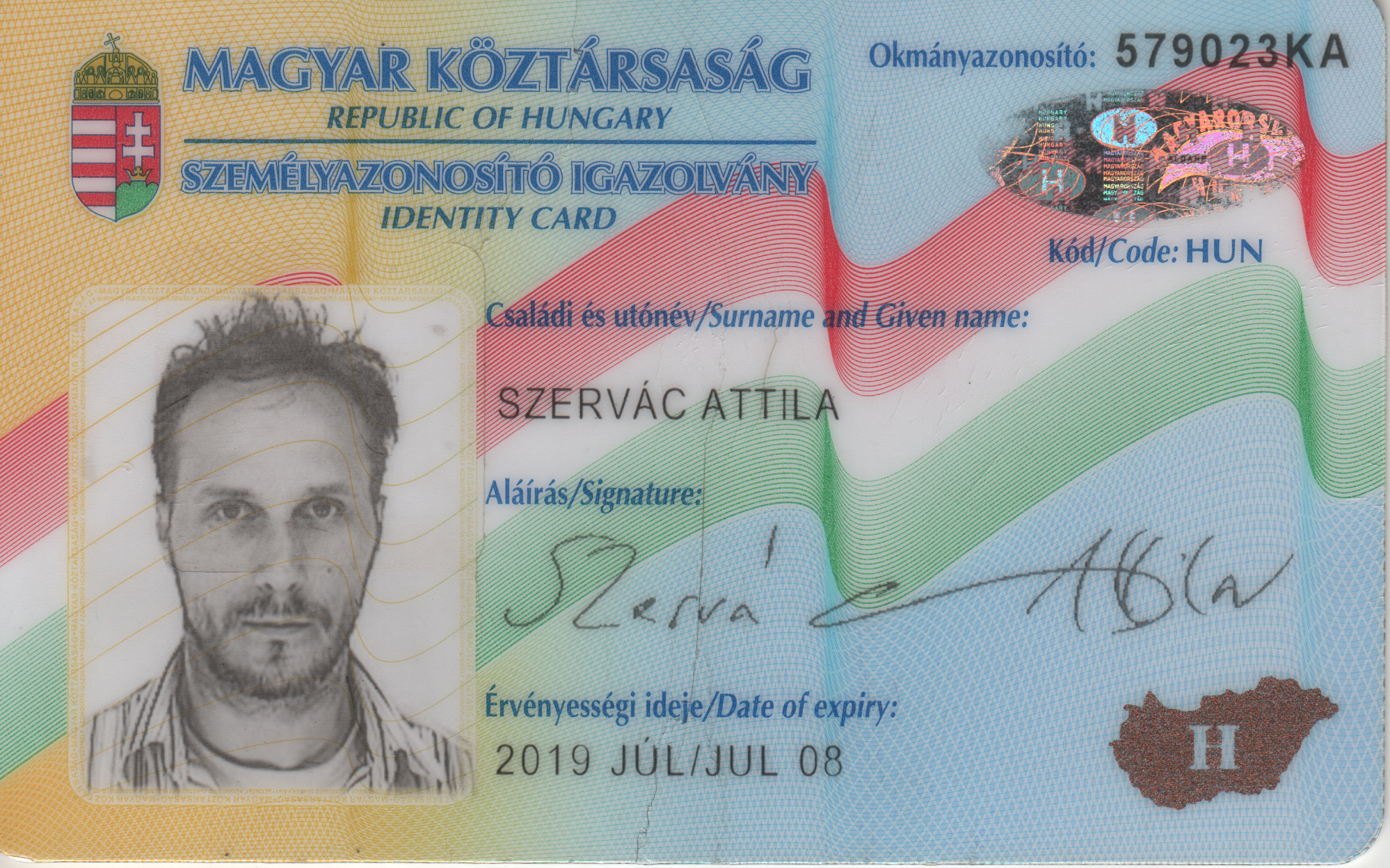 Official ID card for Attila Szervác EU citizen - front